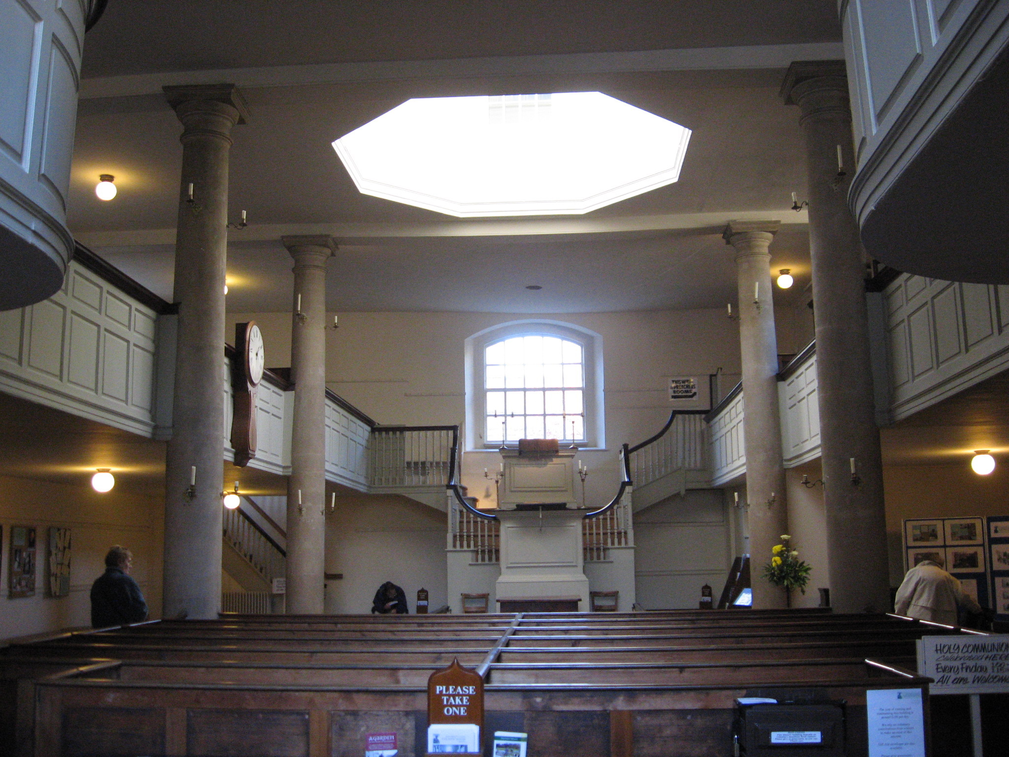 John Wesley's New Room - the first Methodist Church in the world, Bristol, England